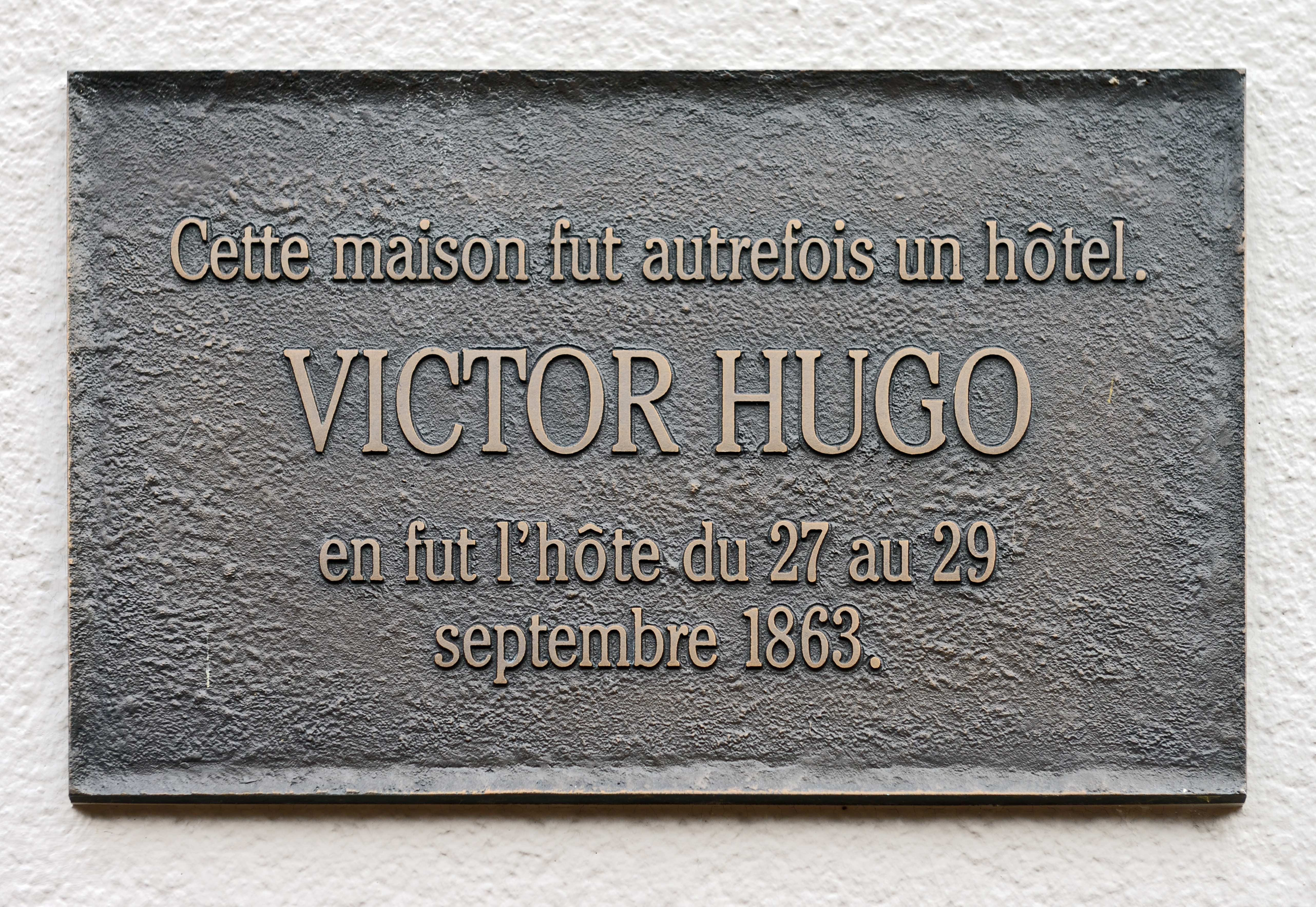 Luxembourg, Clervaux: plaque on the former hotel where Victor Hugo stayed from September 27-29 1863 during his political exile.